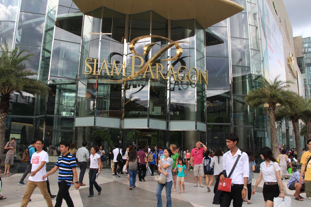 Shopping at Siam Paragon